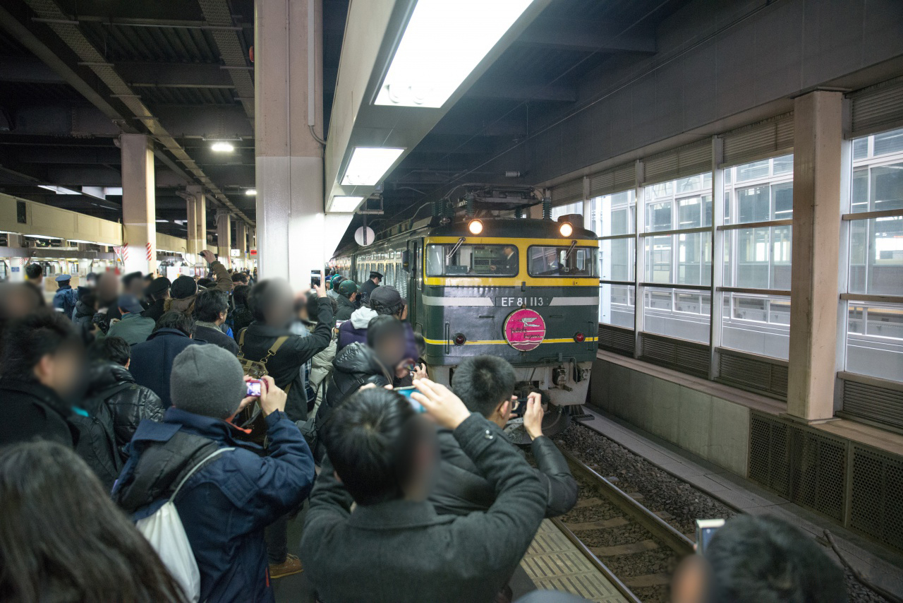 JR West Class EF81 electric locomotive EF81 113 hauling the final regular up (Osaka-bound) Twilight Express sleeping service (Train No. 8002) at Kanazawa Station